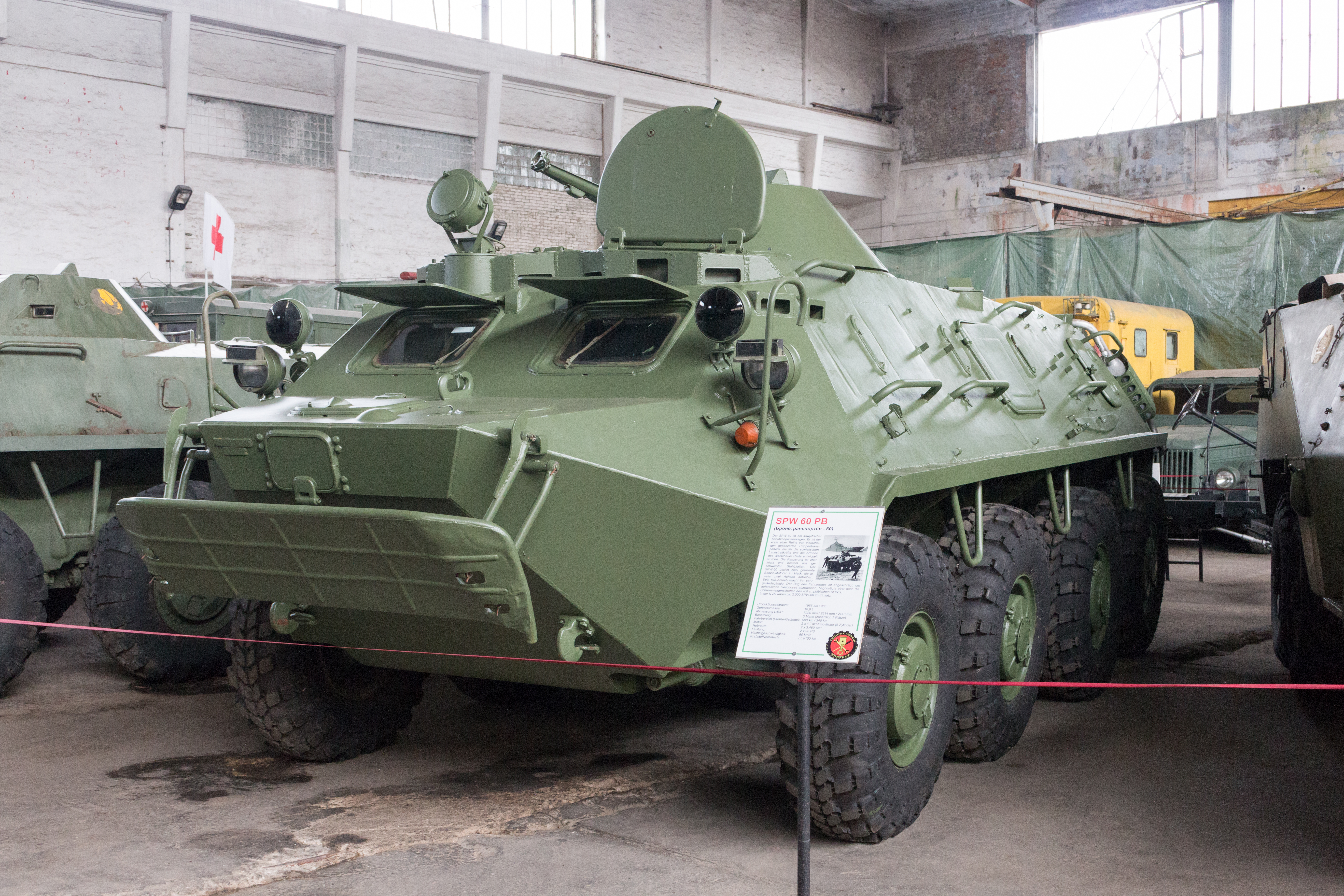 Technik-Museum Pütnitz